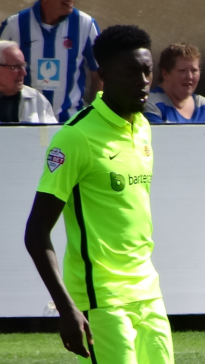 Rakish Bingham playing for Hartlepool United against York City at Bootham Crescent, York on 15 August 2015